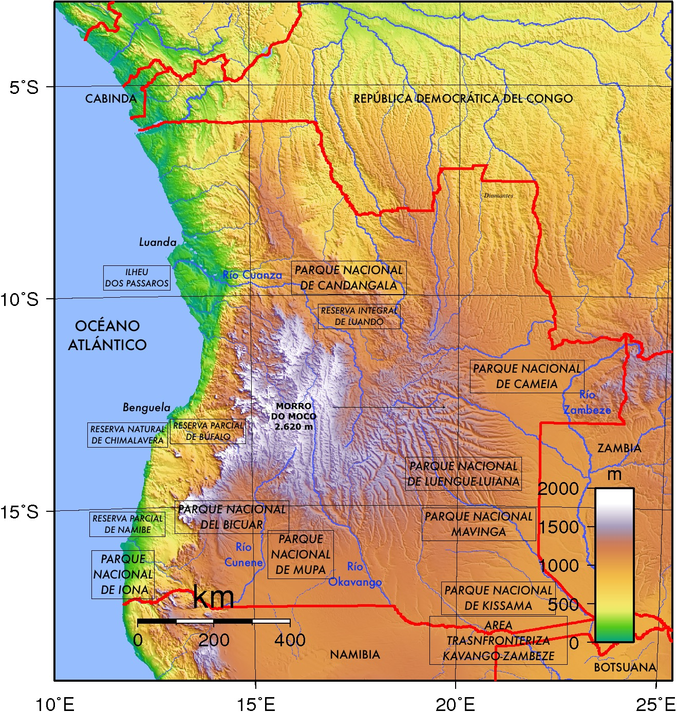 Topographic map of Angola with protected areas